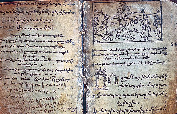 Saghmosaran (Psalter), Abkar Dpir, Venice, 1565.